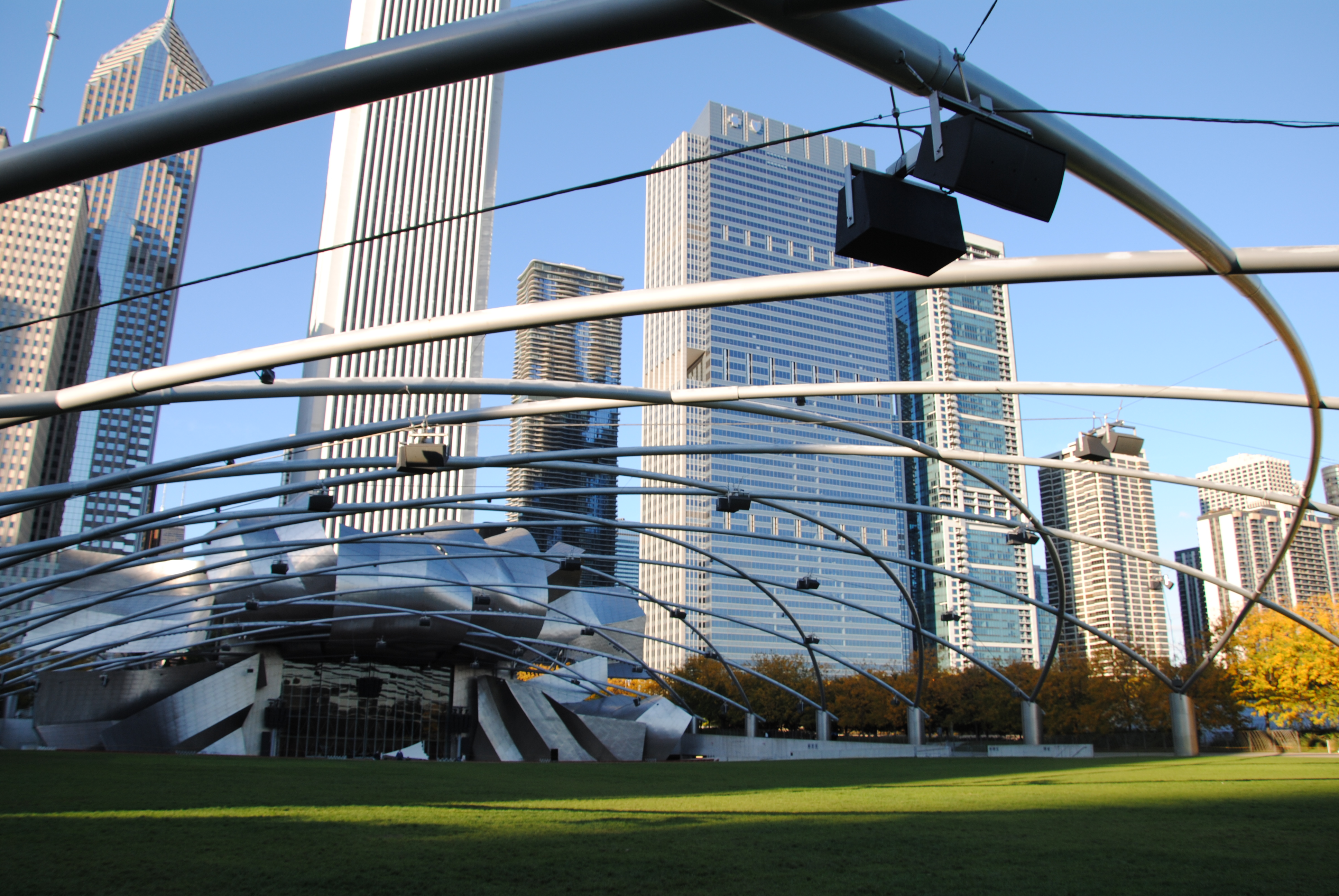 Chicago, IL. USA.